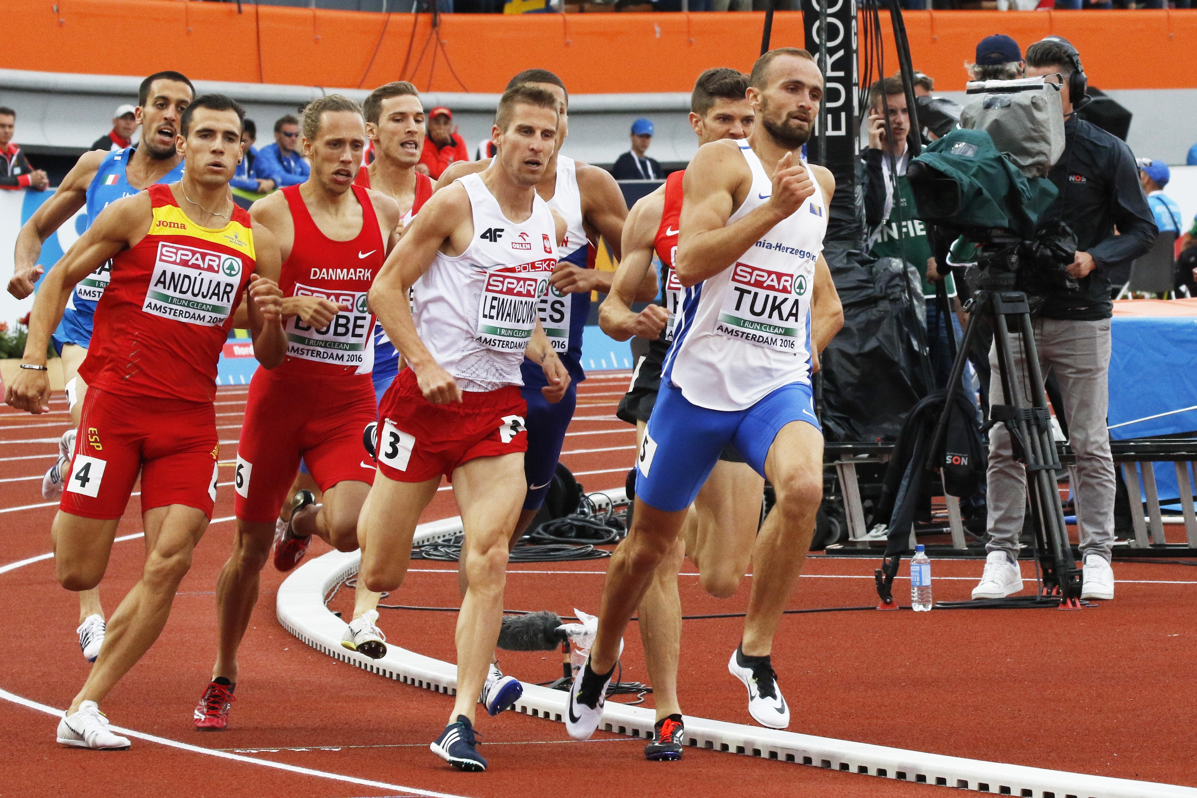 2016 European Athletics Championships – Men's 800 metres semifinals heat 2